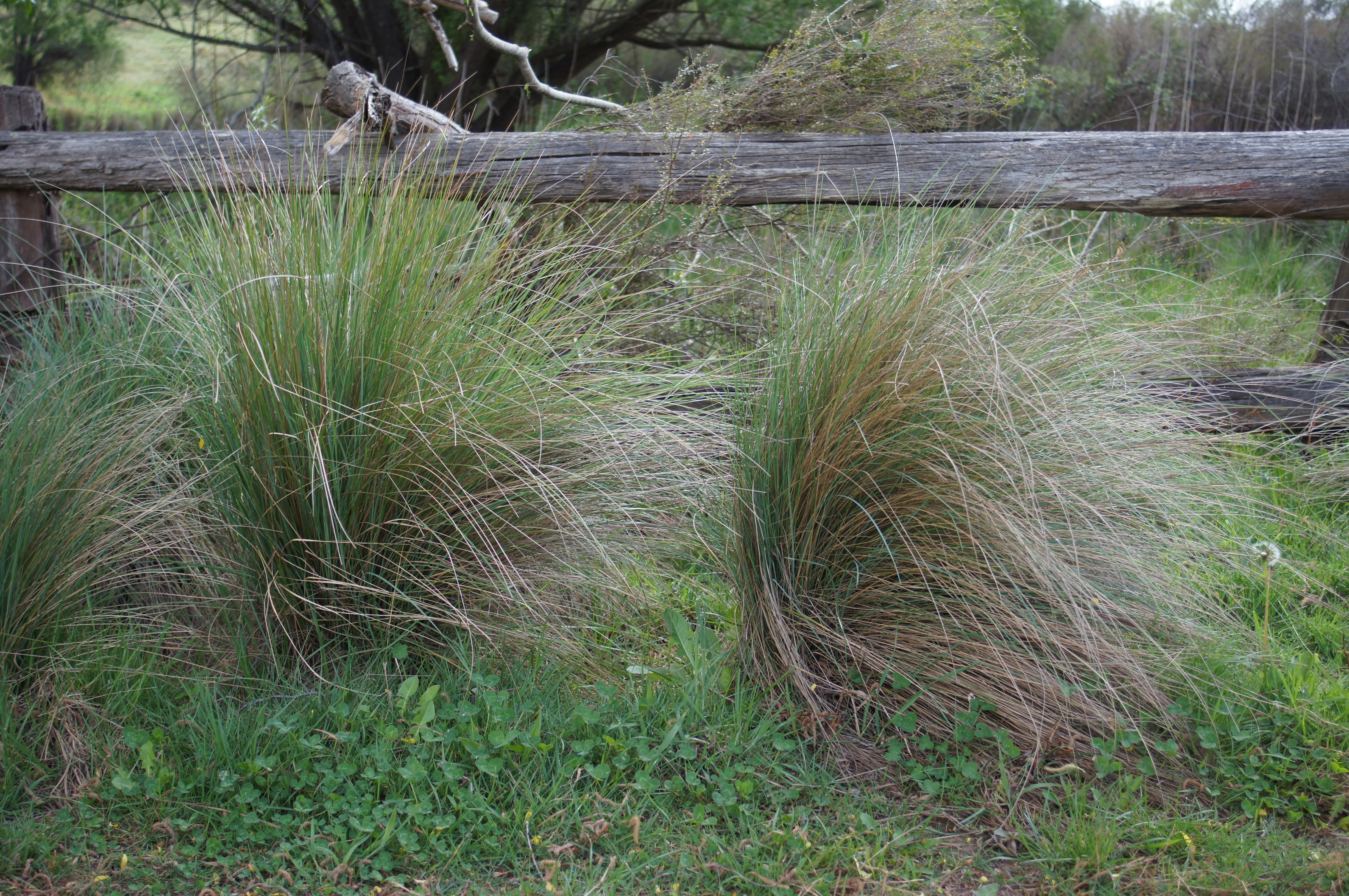 Native, yearlong-green, perennial, coarse, dense, tussock-forming grass to 120 cm tall. Leaves very long and 1-3.5 mm wide, rough on the lower surface and dull green or greyish-green. Ligules are absent, but leaf sheaths have extensions that are covered in very fine spines. Found in moister areas, such as drainage lines, gullies, river flats, forests and open sheltered slopes; especially where fertility is reasonably high. Highly frost tolerant. Native biodiversity. Provides shelter for wildlife and is valuable for preventing soil erosion along gully lines. Has a high growth rate, but even new growth is only ever of moderate feed value. New growth that has been burnt or kept short is more readily grazed. Becomes more abundant under set stocking as mature plants have a mass of old leafy material and are not palatable to stock. Can be effectively managed by stocking cattle at high densities with protein supplementation.